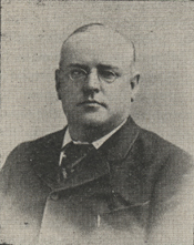 Former United States Representative from California Thomas J. Geary.